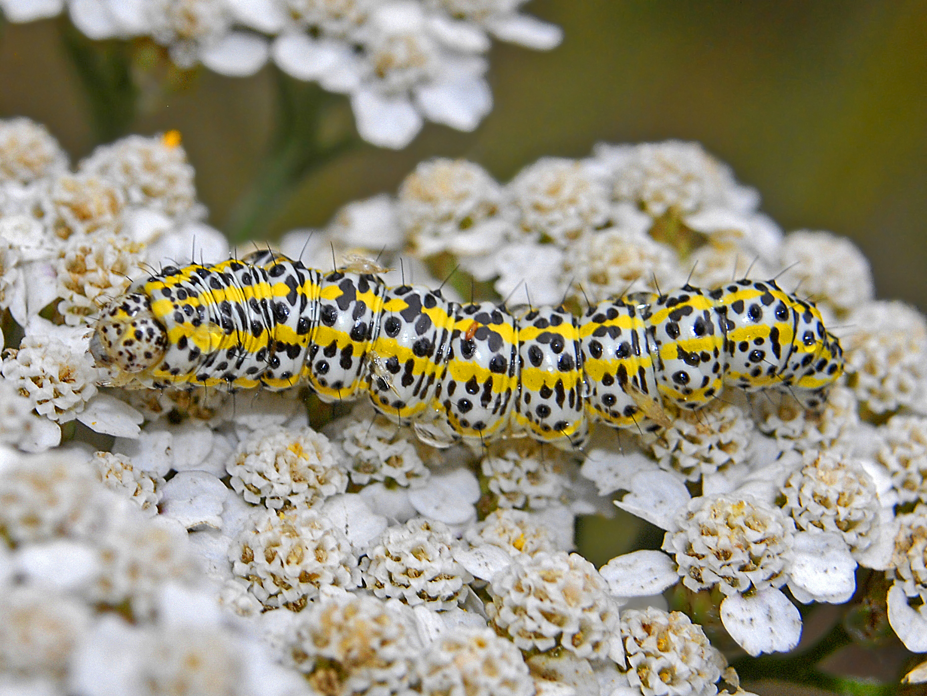 Caterpillar of Cucullia tanaceti. La Thuile, Aosta, Italy